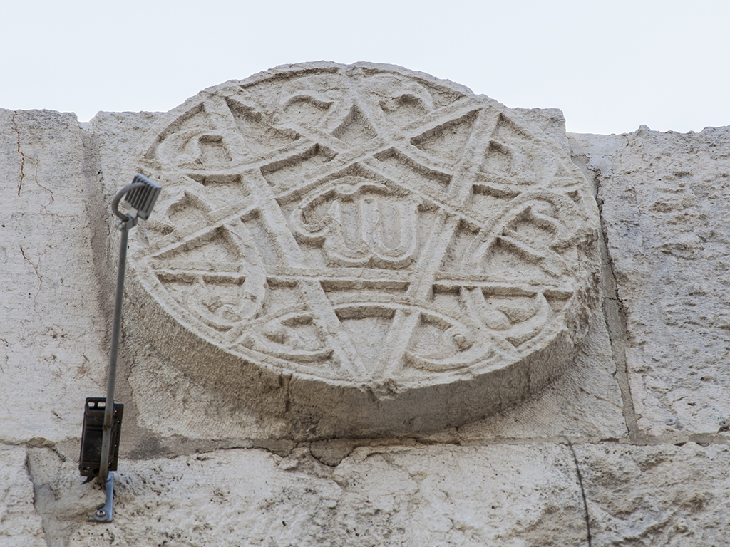 Shot with my new lense: Canon 70-300 L Jerusalem